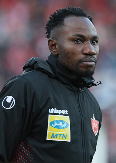 Tehran derby